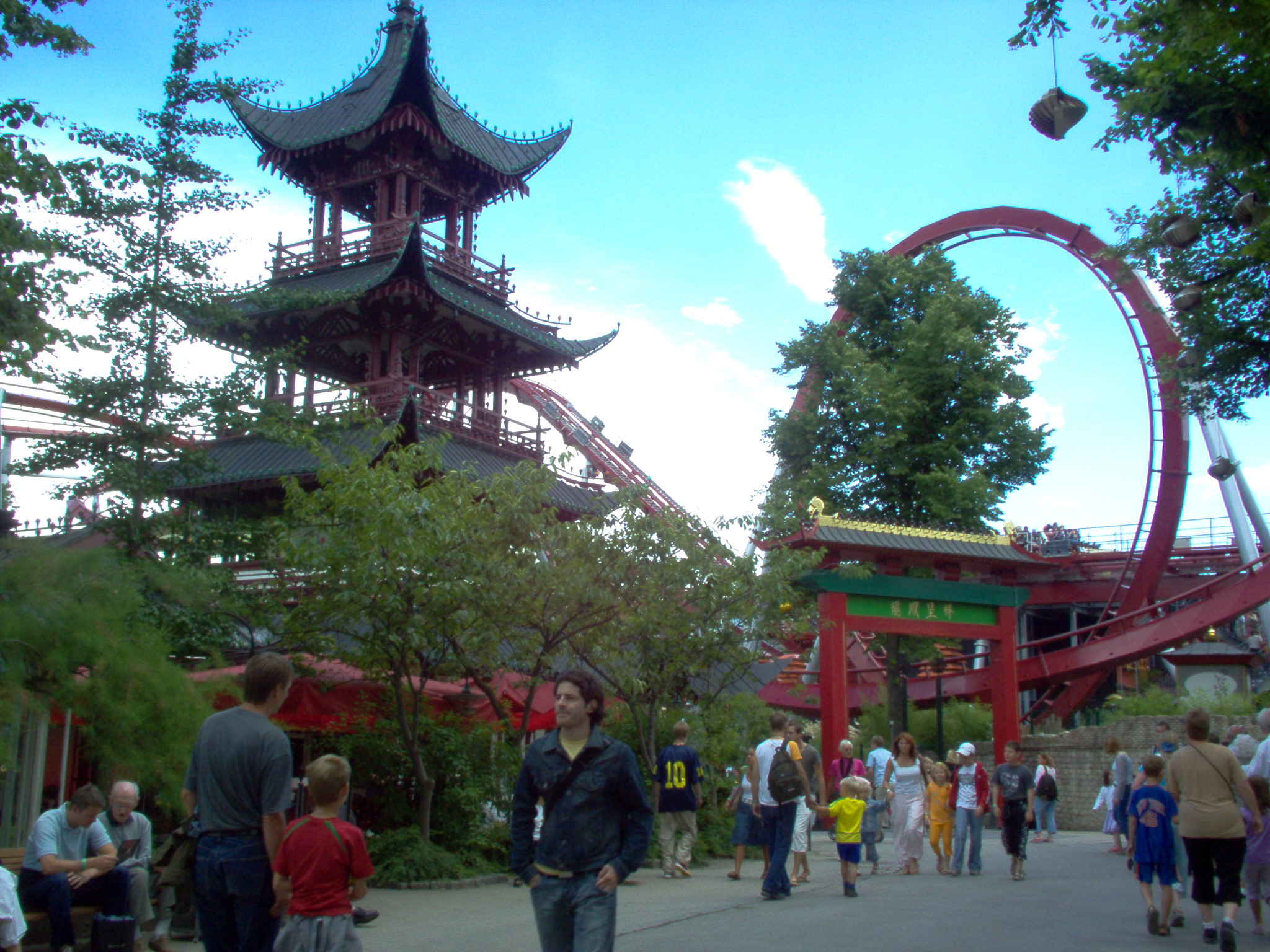 Rollercoaster Dæmonen in Tivoli Gardens, Copenhagen, Denmark.